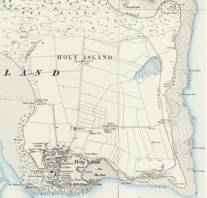 Holy Island eastern waggonway